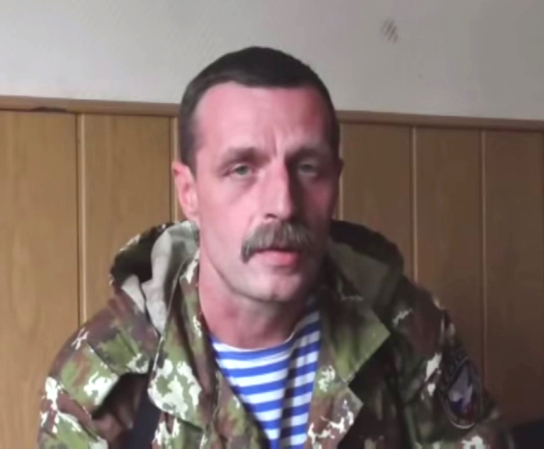 Igor Bezler interview, July 15, 2014.